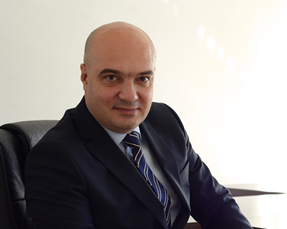 PhotoNM